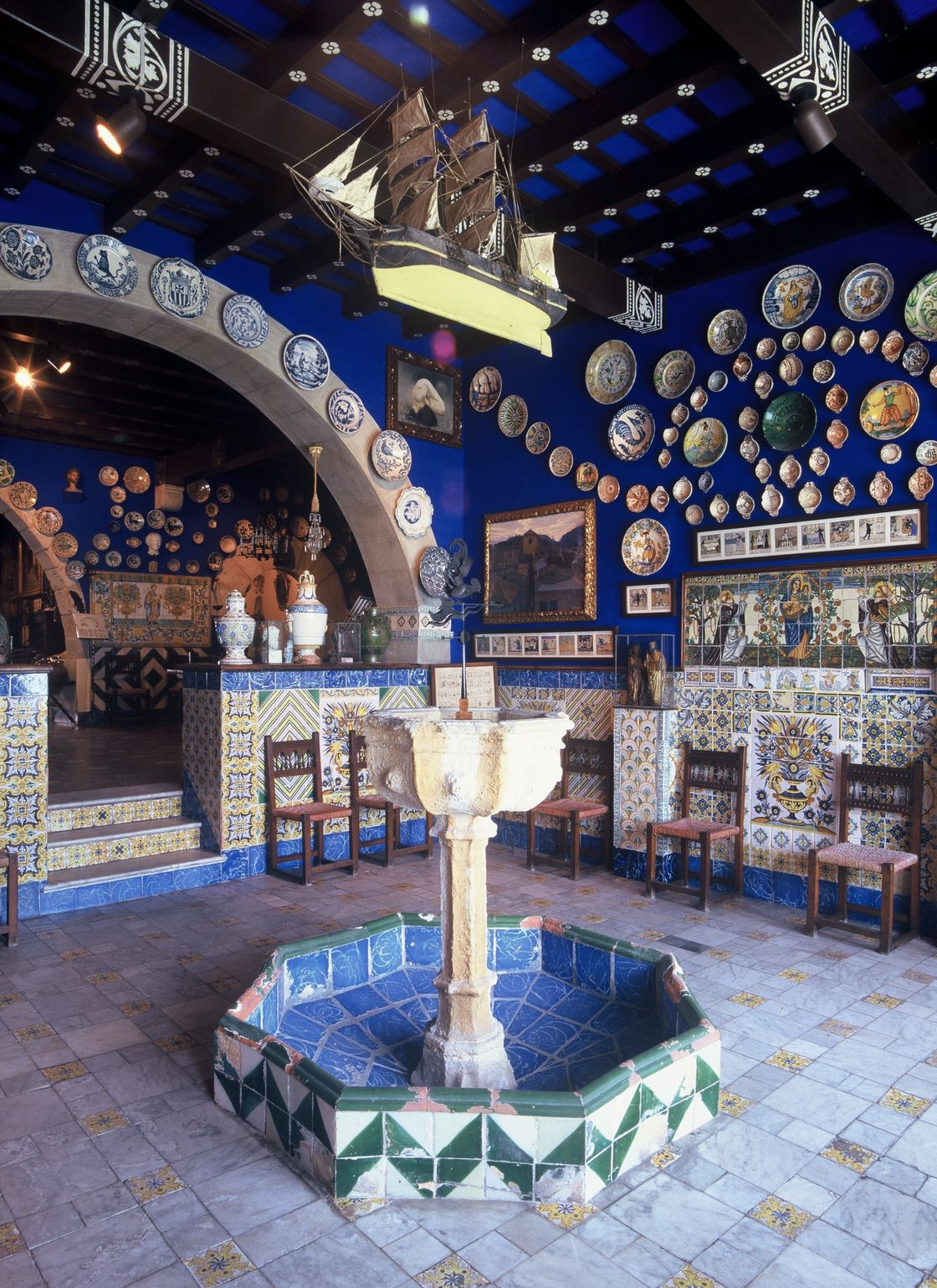 Sala amb la pica baptismal al centre.